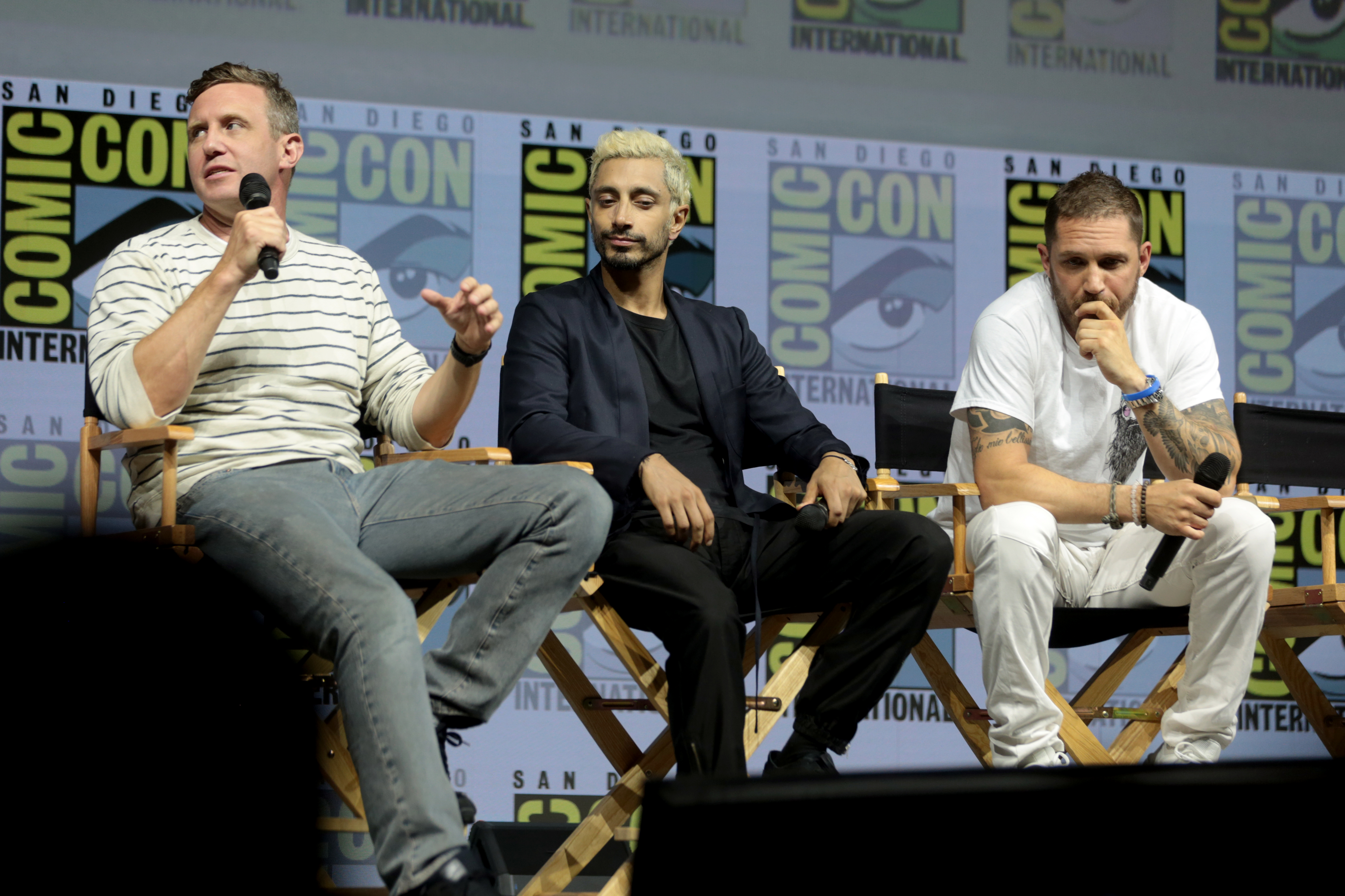 Ruben Fleischer, Riz Ahmed and Tom Hardy speaking at the 2018 San Diego Comic Con International, for "Venom", at the San Diego Convention Center in San Diego, California.